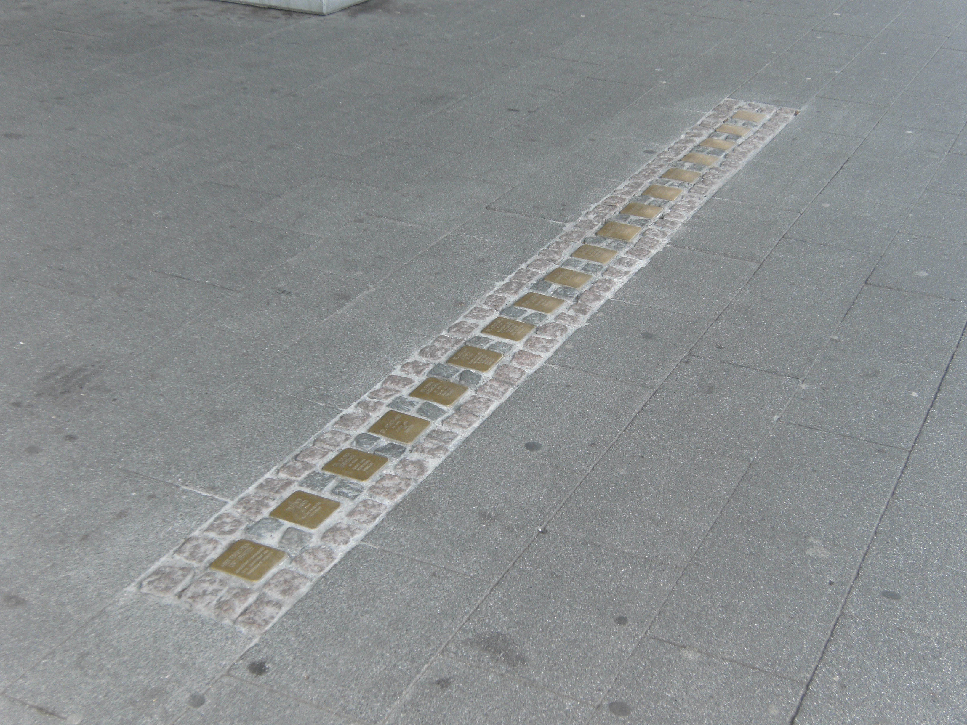 At the entrance to the Neues Klinikum O10 of the Universitätskrankenhaus Hamburg-Eppendorf a row of Stolpersteine (stumbling blocks) was placed to remember.